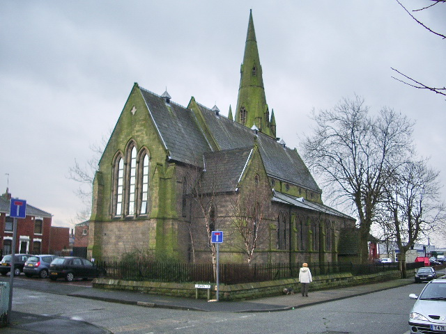 Bridge House, St Luke's Place, Preston, Lancashire, seen from the north. Completed in 1859 as St Luke's parish church, now converted into a care home for alcoholics.